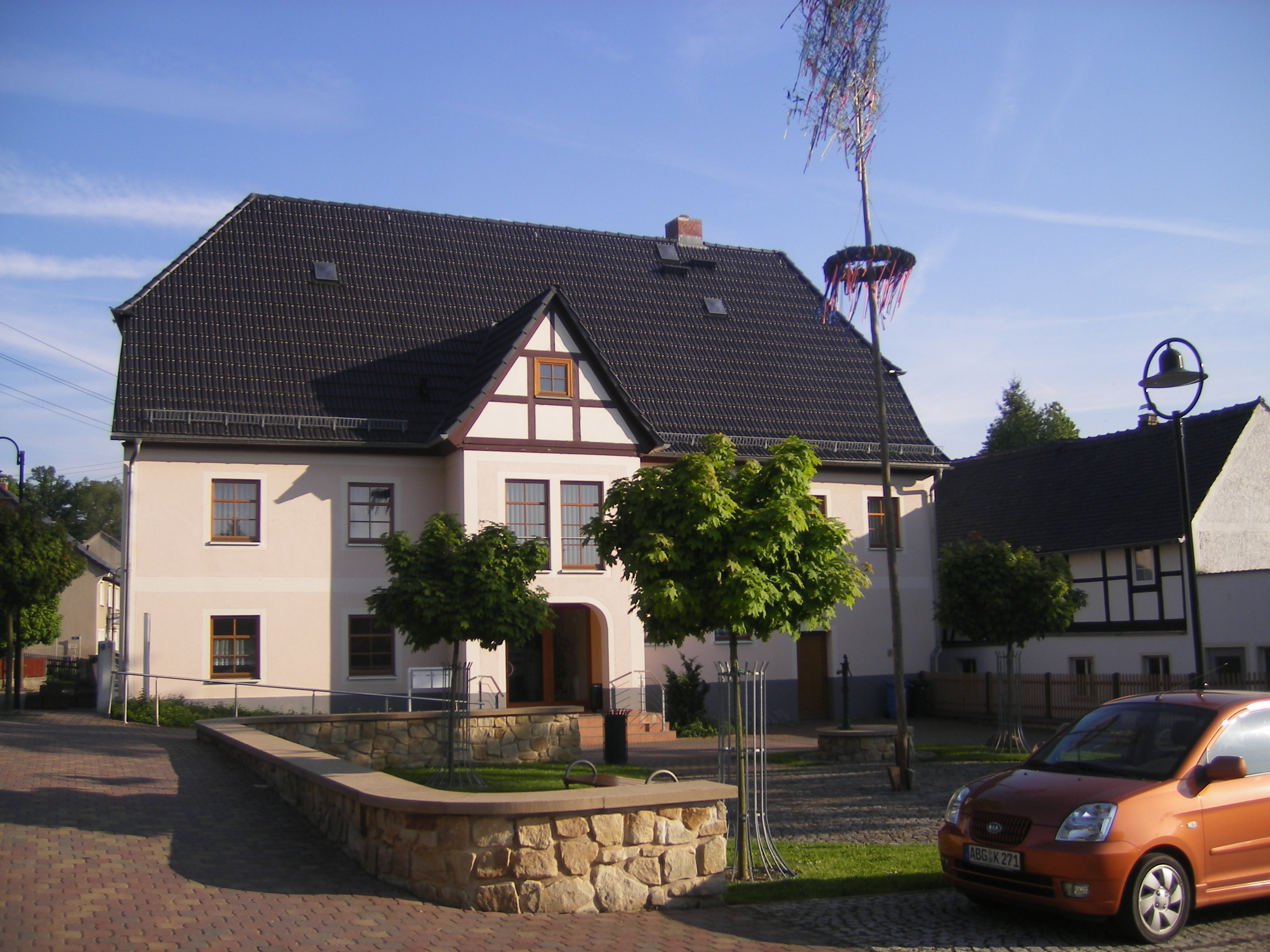 Municipal office of Thonhausen in Altenburger Land/Thuringia